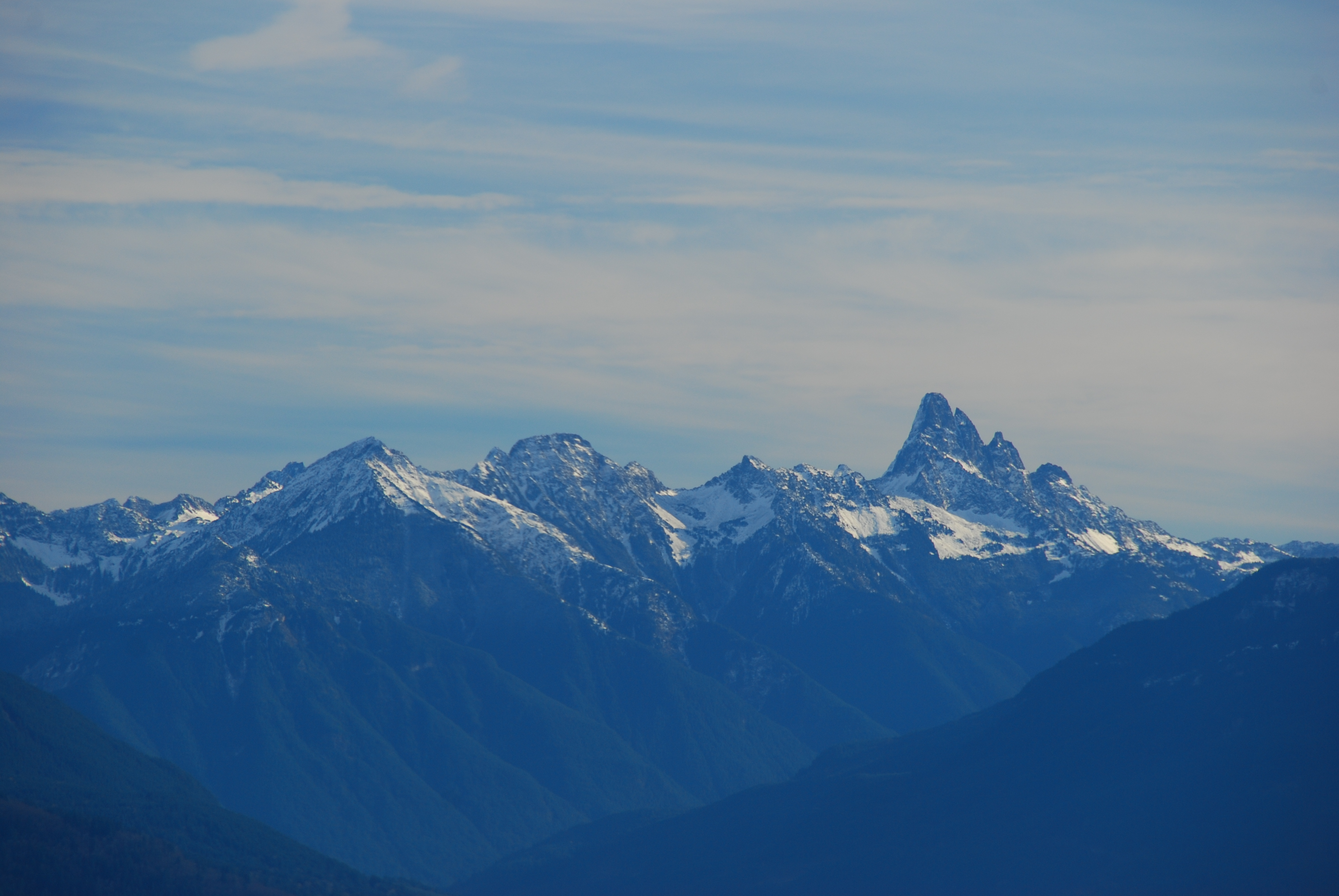 Slesse Mountain, Mount Parkes, Crossover Peak & Mount MacFarlane seen from a small plane flying up the Chilliwack River Valley.